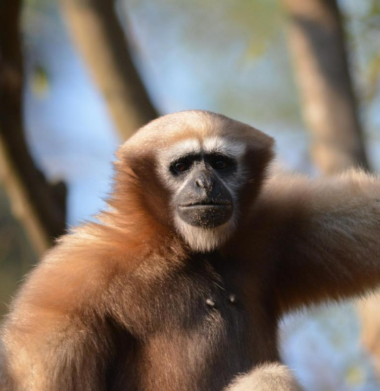 Hoolock Gibbon Hoolock hoolock. Photo taken in zoo in Aizawl, Mizoram, India.